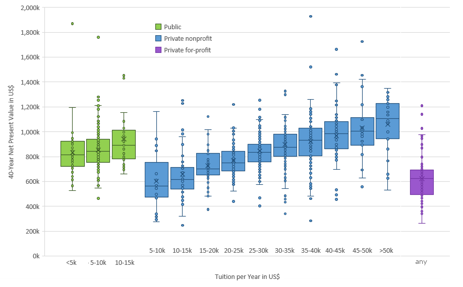 Quartiles of 40-year net present value (40 year income without costs of tuition) of 4-year colleges, by tuition level and college type; data sources